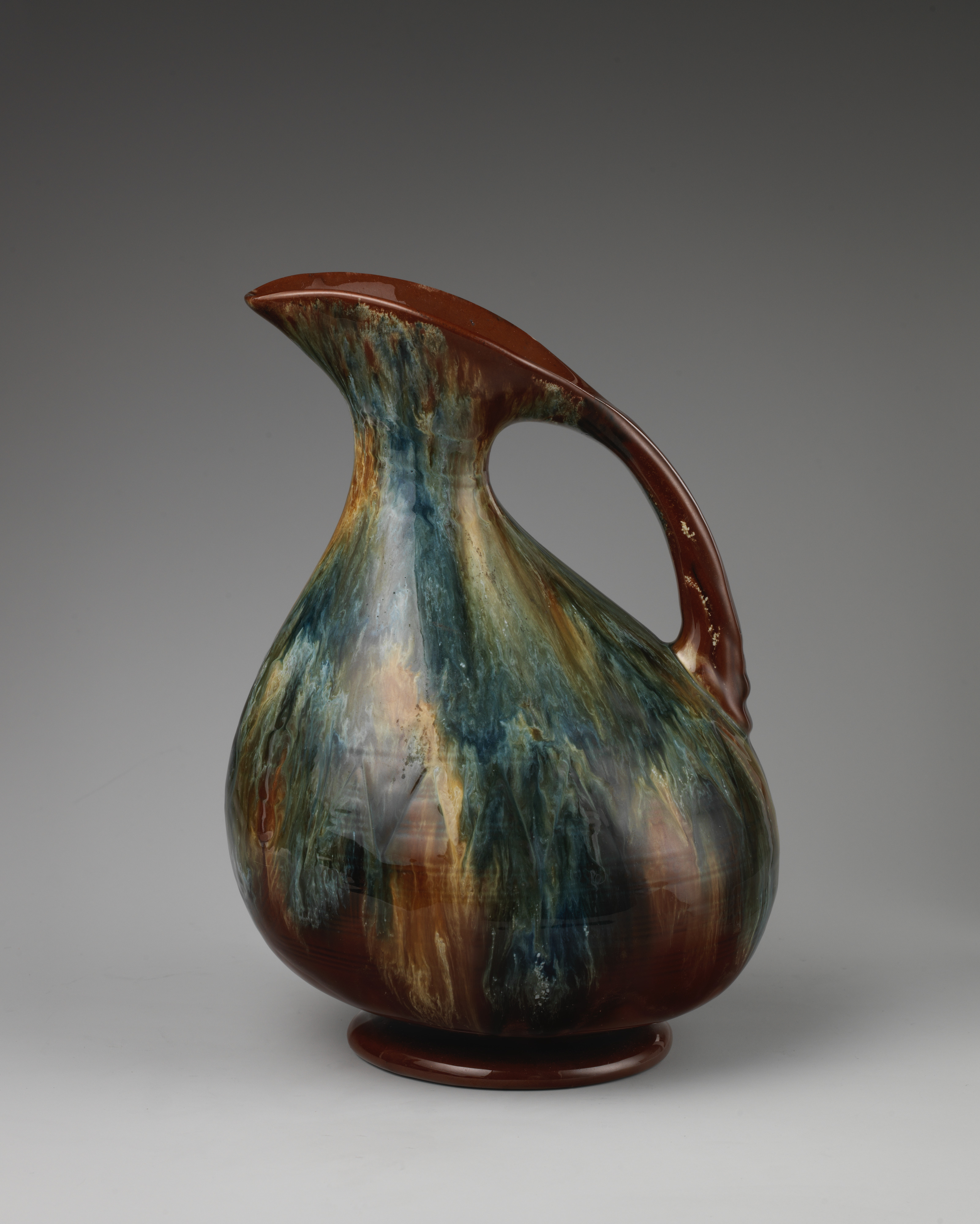 British, Linthorpe, Yorkshire; Pitcher; Ceramics-Pottery